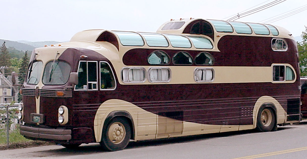 Peacemaker 1 bus at a June 22, 1984 Raid anniversary in Island Pond, Vermont USA.